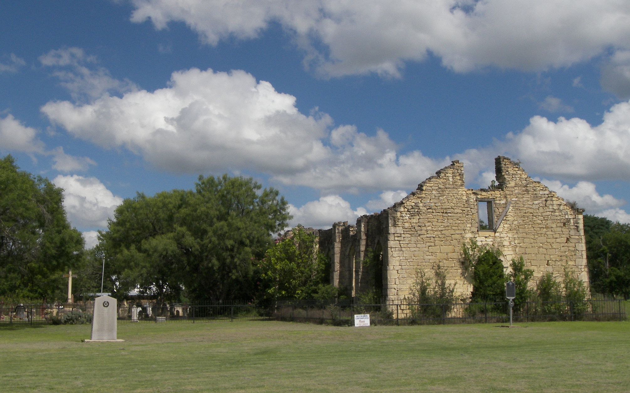 The ruins of Saint Dominic Catholic Church and the D'Hanis Cemetery are part of the D'Hanis Historic District in D'Hanis, Texas, United States. The district was listed on the National Register of Historic Places on June 24, 1976.